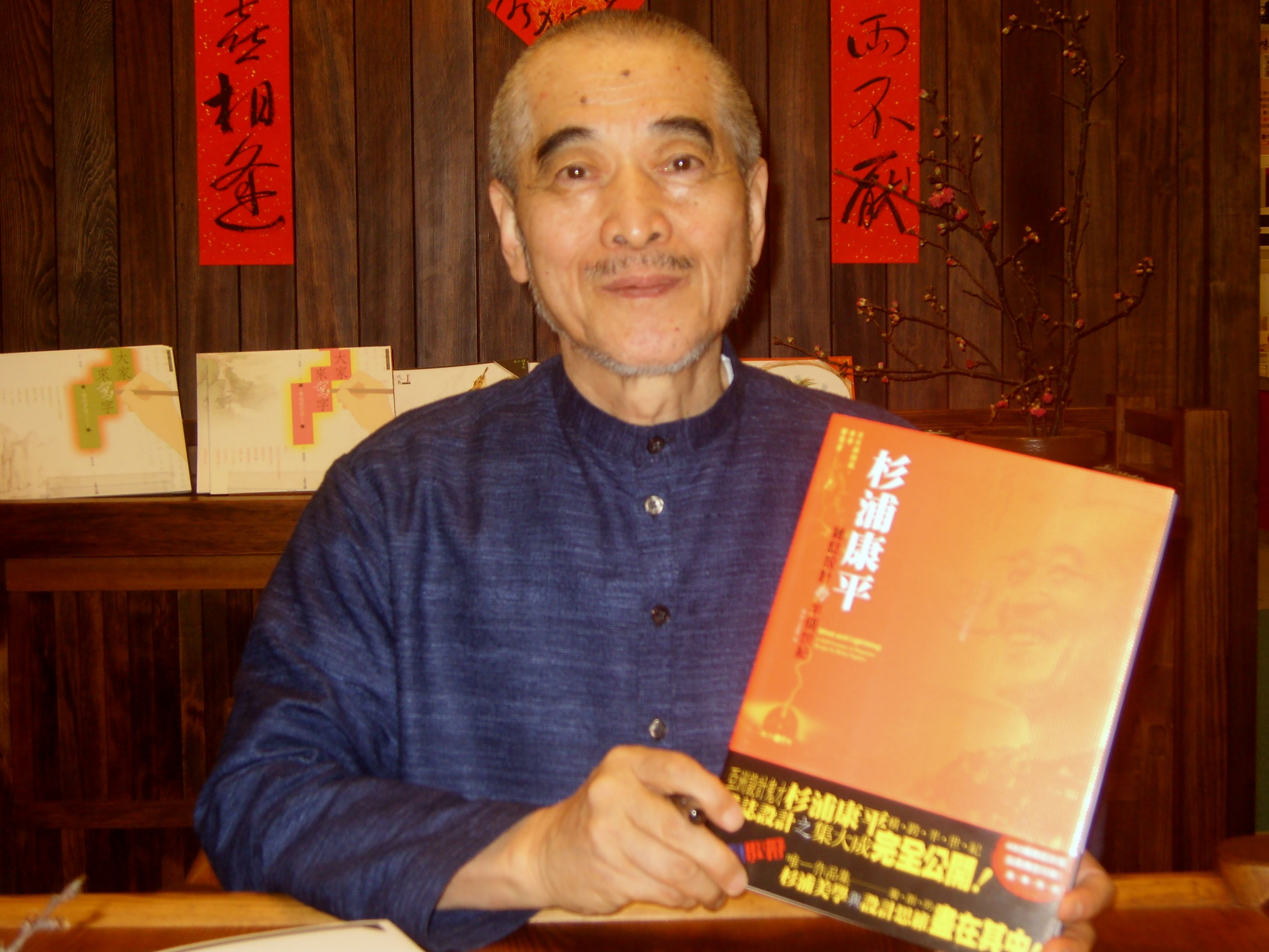 2008 Taipei International Book Exhibition - Kohei Sugiura, Japanese book designer, at Lion Arts Signing Event.